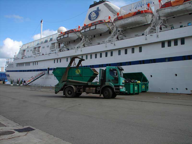 Solid waste being collected from the cruise ship Athena in Brest.